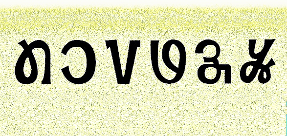 Mundari written in Mundari Bani